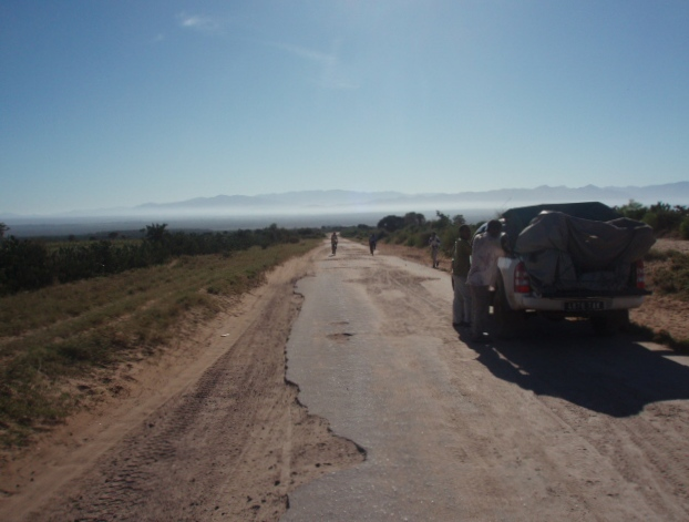 Madagascar's national road No. 13 near the Berenty reserve between Amboasary-Sud and the Berenty reserve